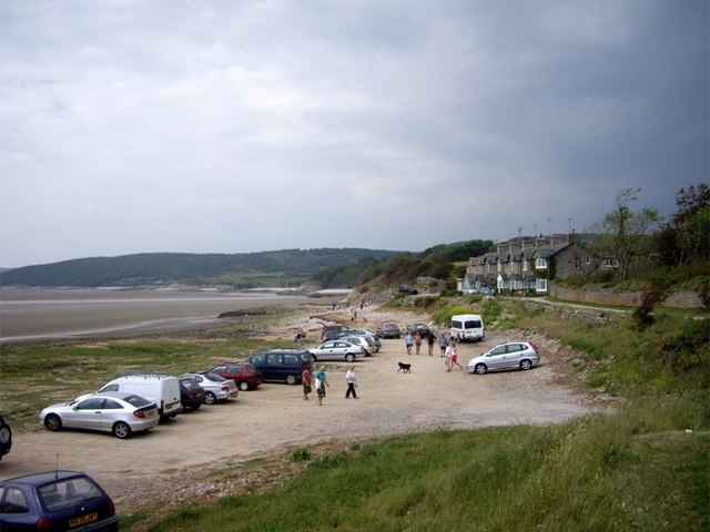 Silverdale, Lancashire, England, UK - the shore, with cars parked, showing view across Morecambe Bay